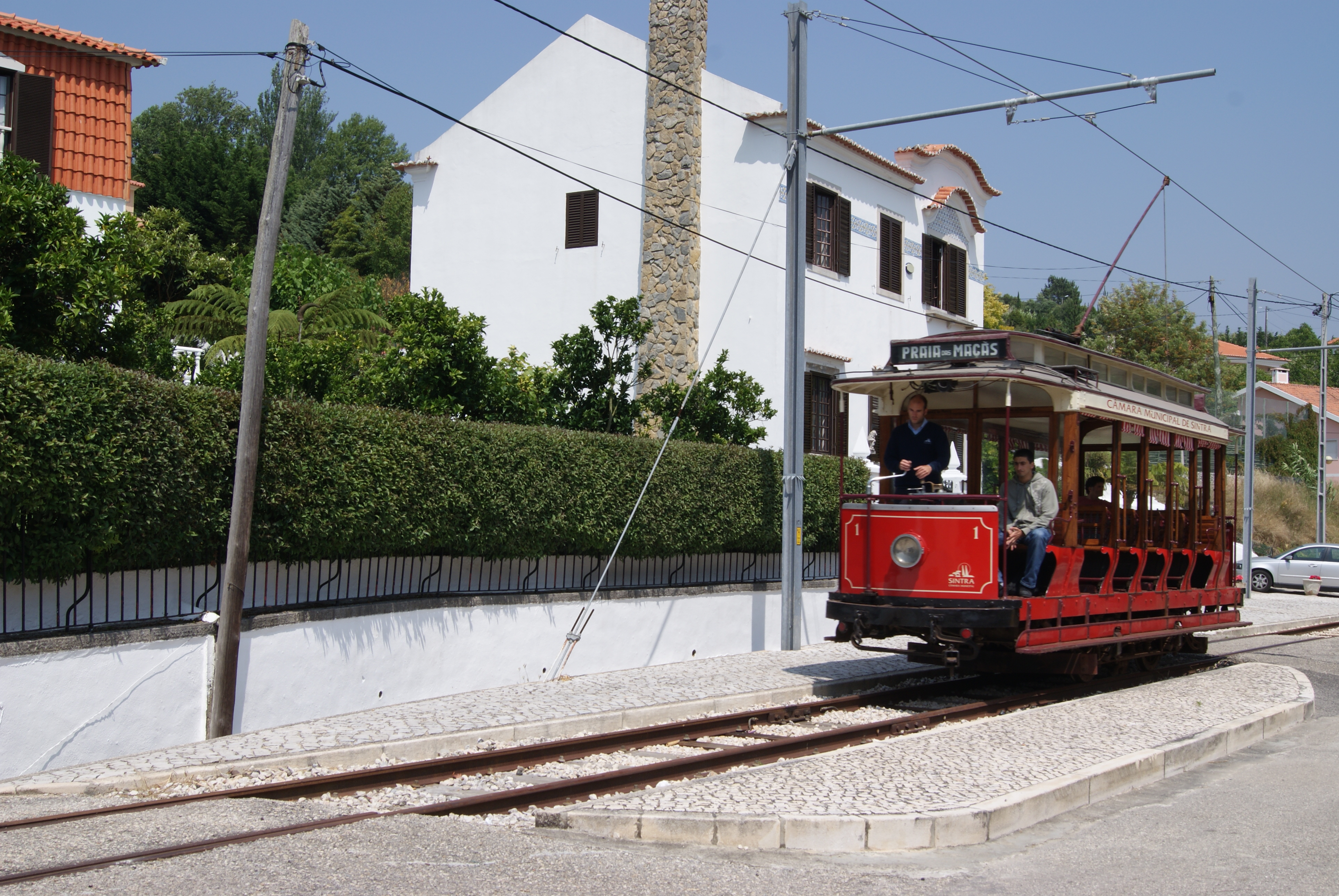 Sintra open tram 1 was built in 1903 by the J. G. Brill Company, in kit form, and assembled in Sintra.